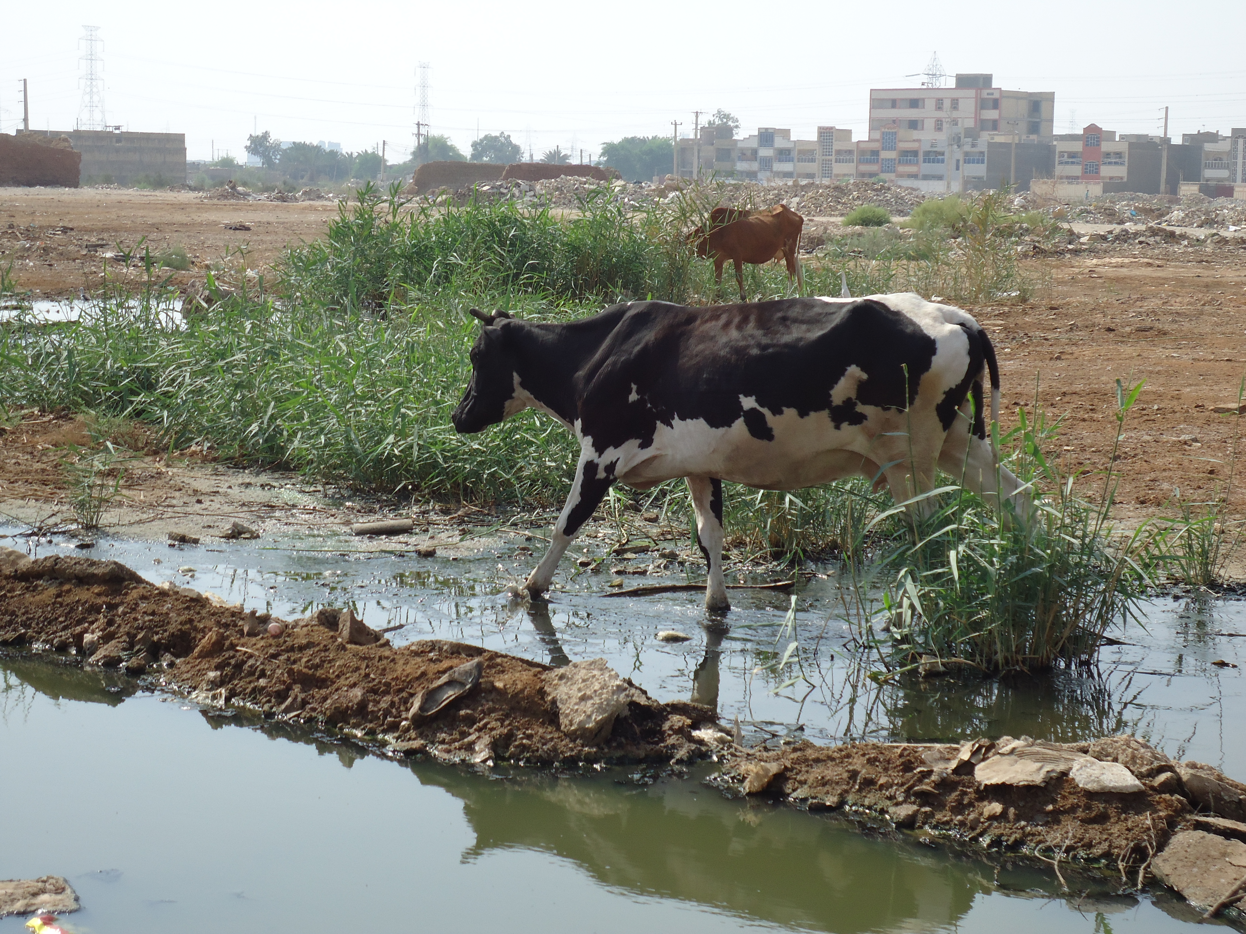 A cow in a ring town in Ahwaz, Iran